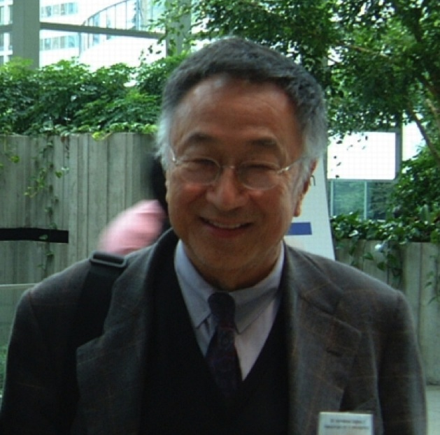 Noted scientist in the field of human organ transplant technology professor emeritus at UCLA School of Medicine and inventor of the microcytotoxicity test for tissue-typing test for organ transplant donors and recipients.